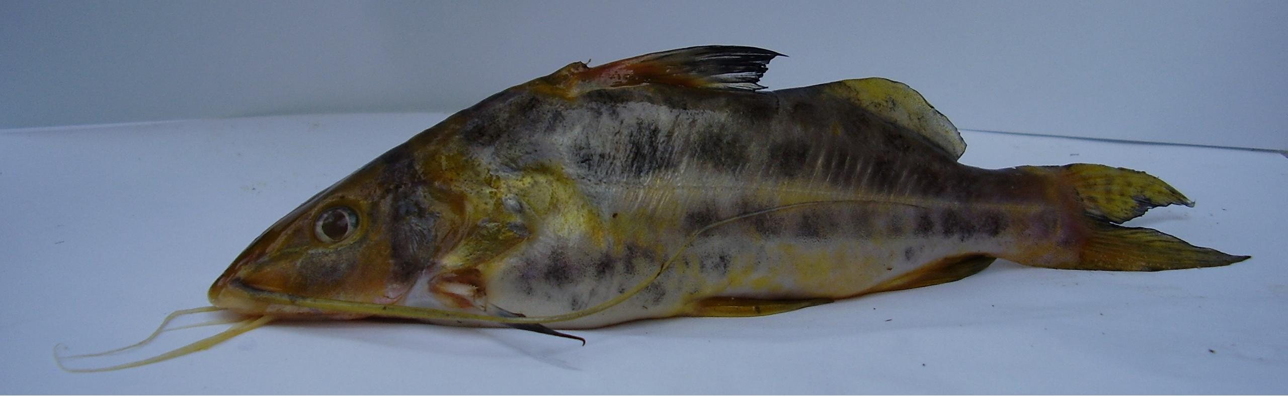 Iheringichthys labrosus from Rio Uruguay